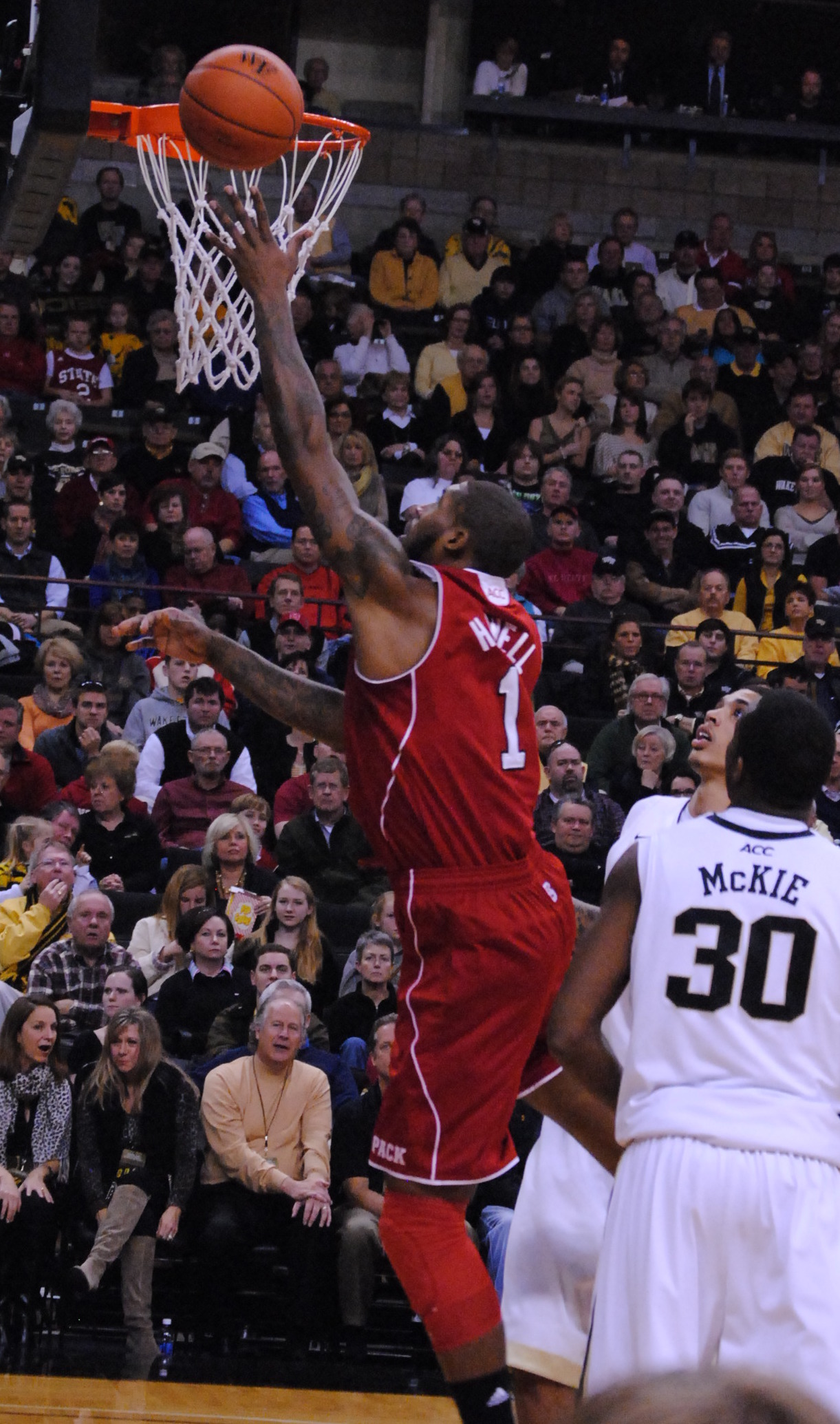 Richard Howell goes to the hoop